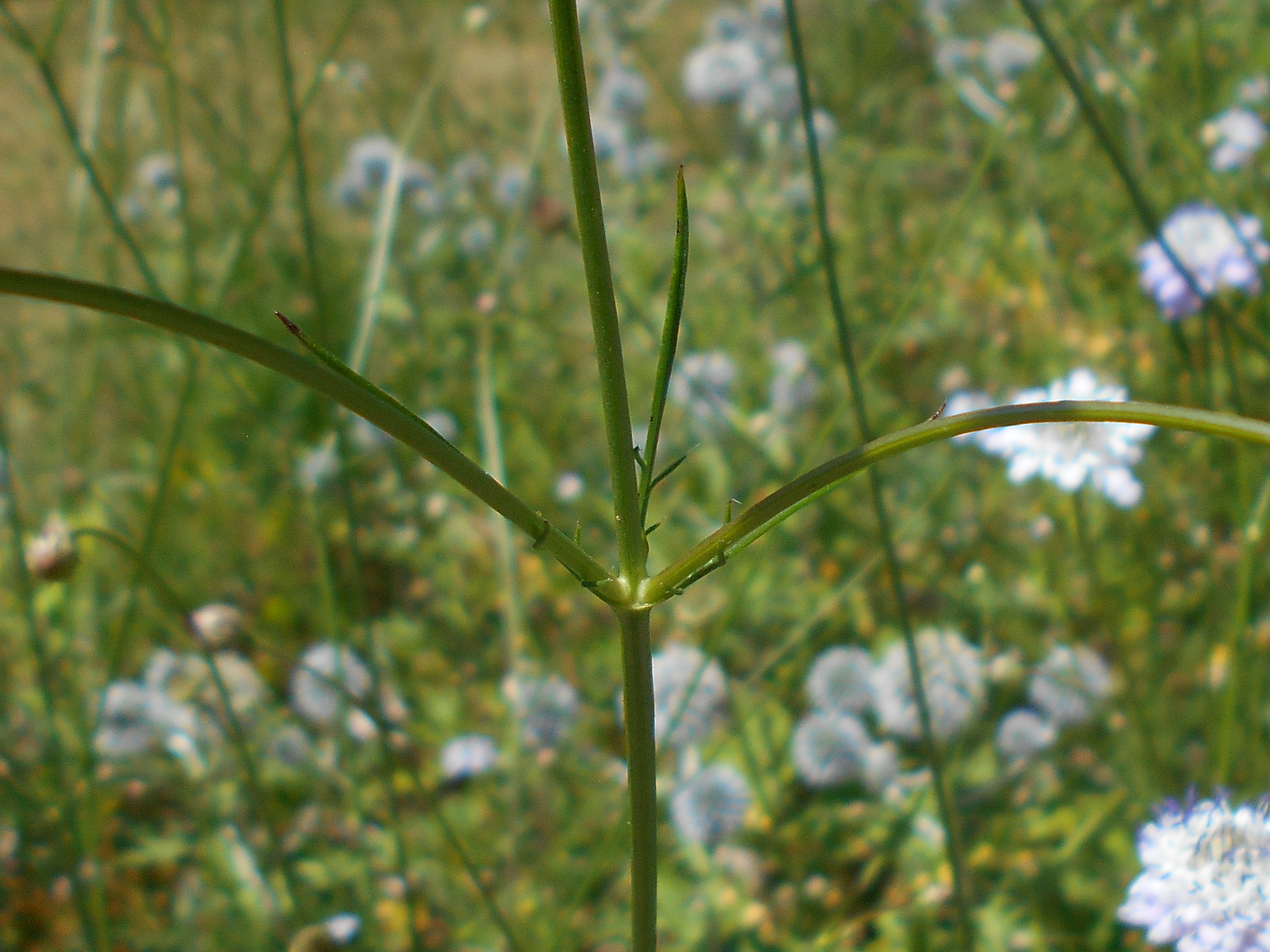 Cephalaria transylvanica, UMCS Botanical Garden in Lublin, Poland.